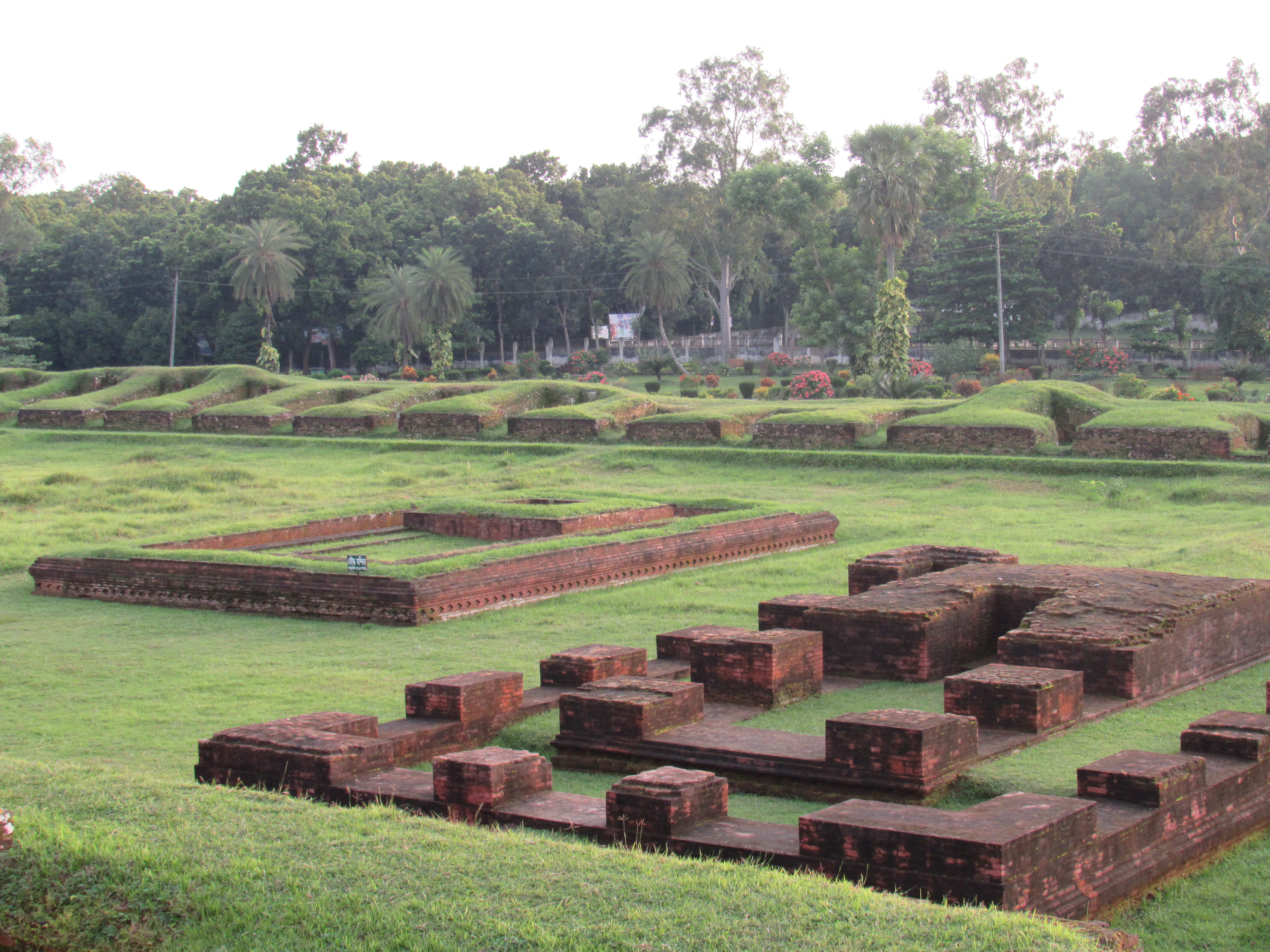 Shalvan Vihara, Mainamati 10 September 2016